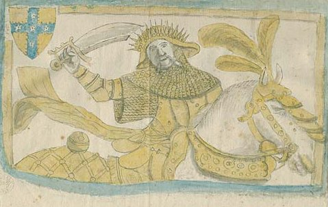 An 18th pencil drawing of the stained glass window at Hall Hill, Abbots Bromley, Staffordshire, England, showing the Anglo-Saxon nobleman Wulfric Spot (died c.1004).